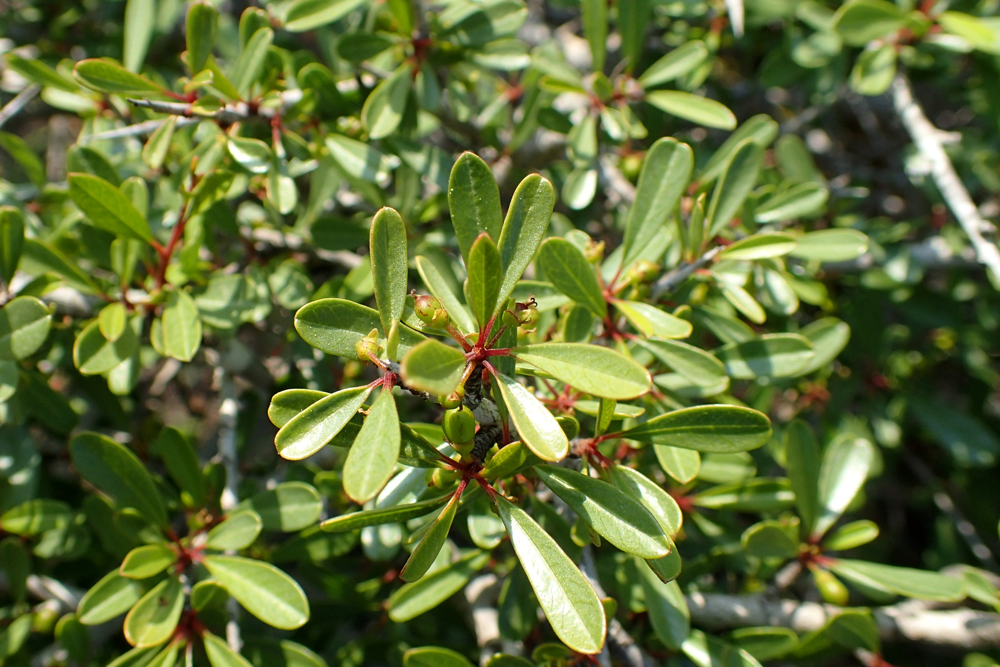 Rhamnus lycioides subsp. graeca in Kavo Gkreko, Cyprus